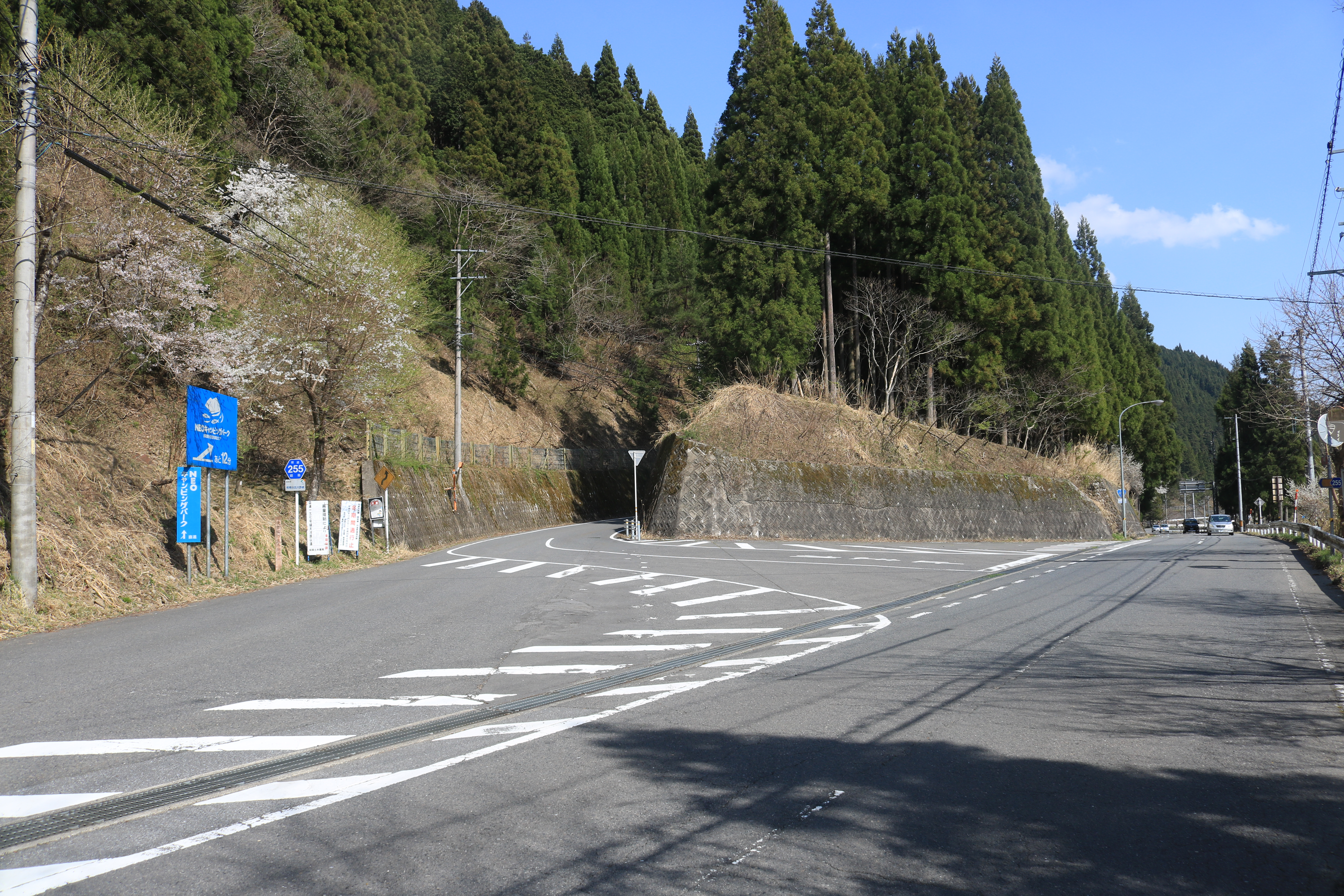 Route 418 and Gifu Prefectural Road Route 255 (Neotanigumi-Ōno Line) in Neohigashiitaya, Motosu, Gifu Prefecture, Japan.